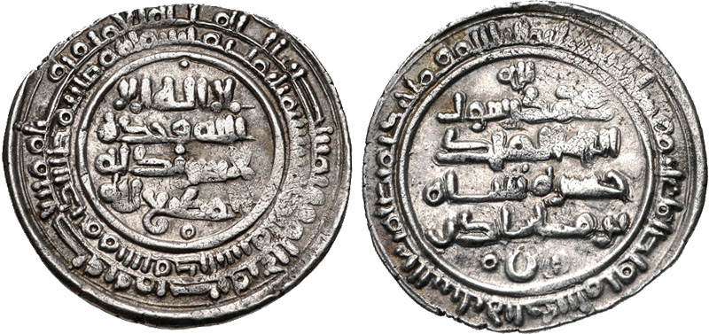 Coin of the Justanid ruler Khusrau (Khosrow) Shah.